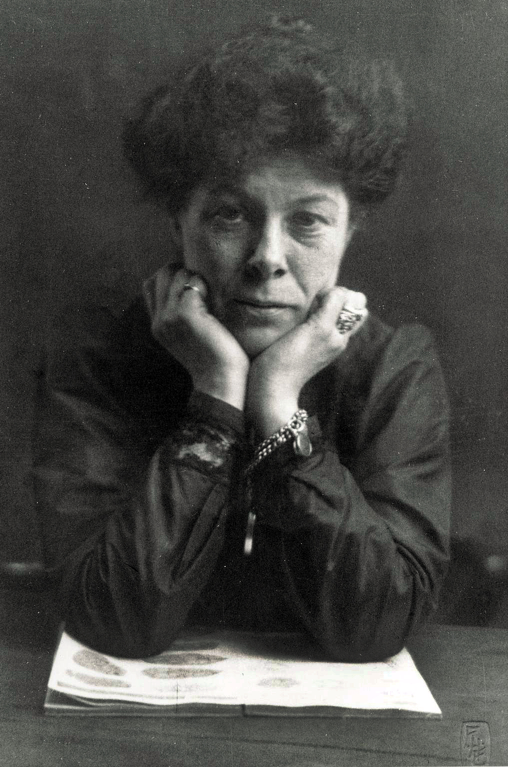 Copy of a 1902 platinum print photograph by Frederick H. Evans. According to Cornell University Library's archiv "Evans took a series of photographs of Shaw's play, 'Mrs. Warren's Profession,' at the time of its 1902 premier at a private club (the play having been banned by the British Censor). Shaw called Evans 'the most artistic of photographers.'"